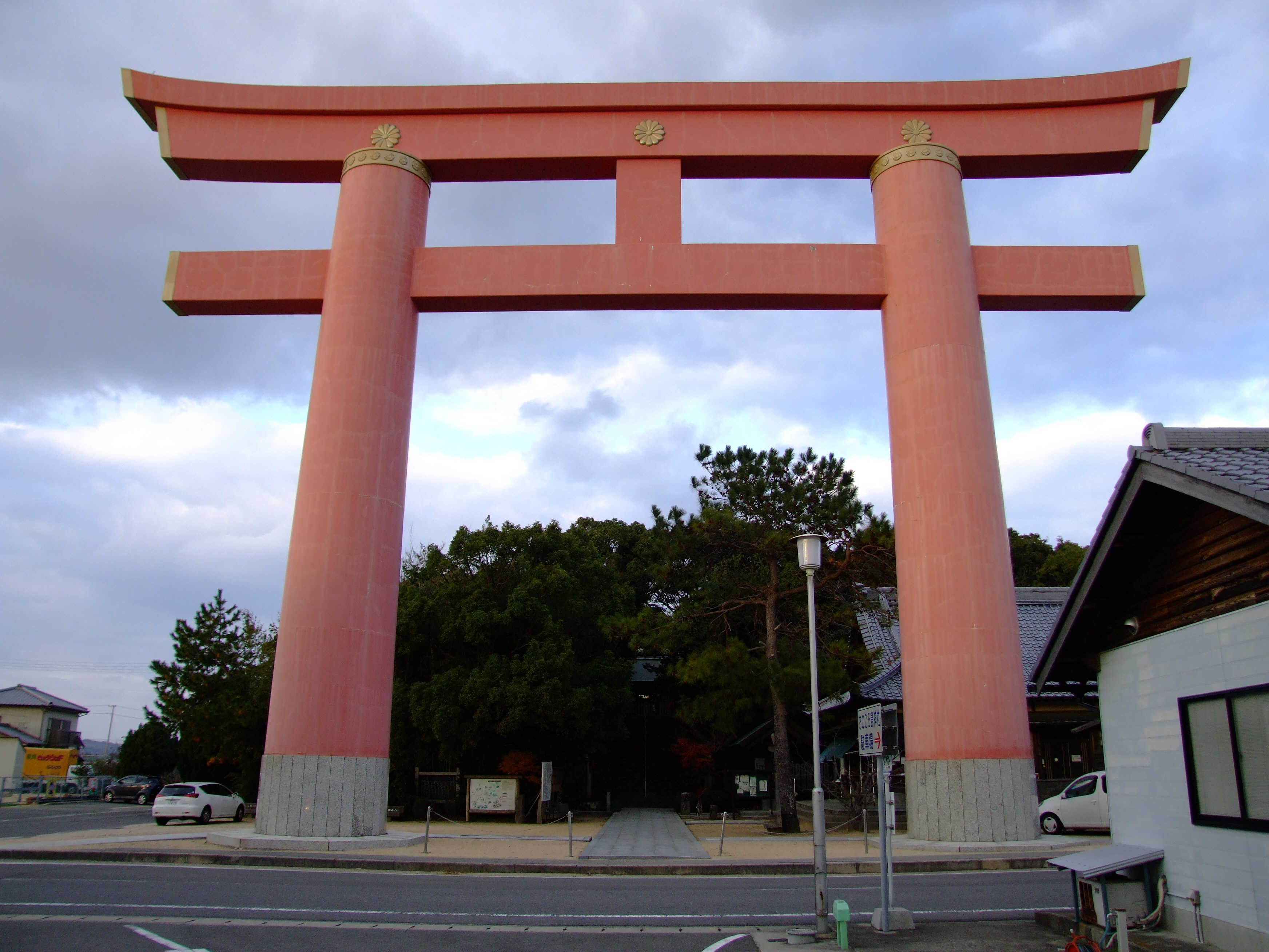 Onokorojima-Jinjya(Shinto shrine), Awaji-shima(island).